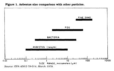 Comparison of the length of an asbestos fiber with other particles and items, including bacterium, fog particles and sand in micrometers